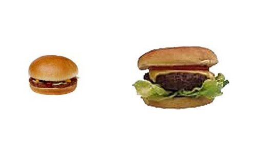 Cheeseburger 20 years ago had 333 calories while a modern cheeseburger contains 590 calories.